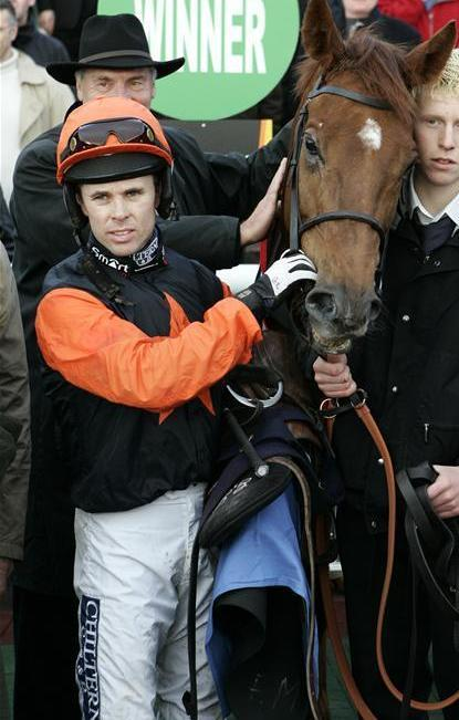 Picture of Graham Lee after winning the World Bet Exchange Now Live At Novices' Chase on Aces Four